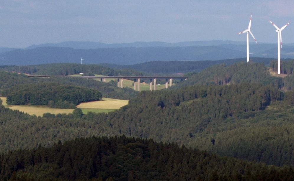 View of Beustenbach bridge of A45 in Gummersbach (near Meinerzhagen) from Aussichtsturm Unnenberg, Germany